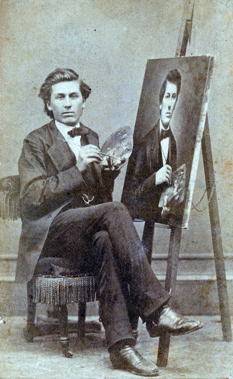 Carte-de-visite portrait of American painter Lloyd Branson, taken by early Knoxville photographer T.M. Schleier (1832–1908)